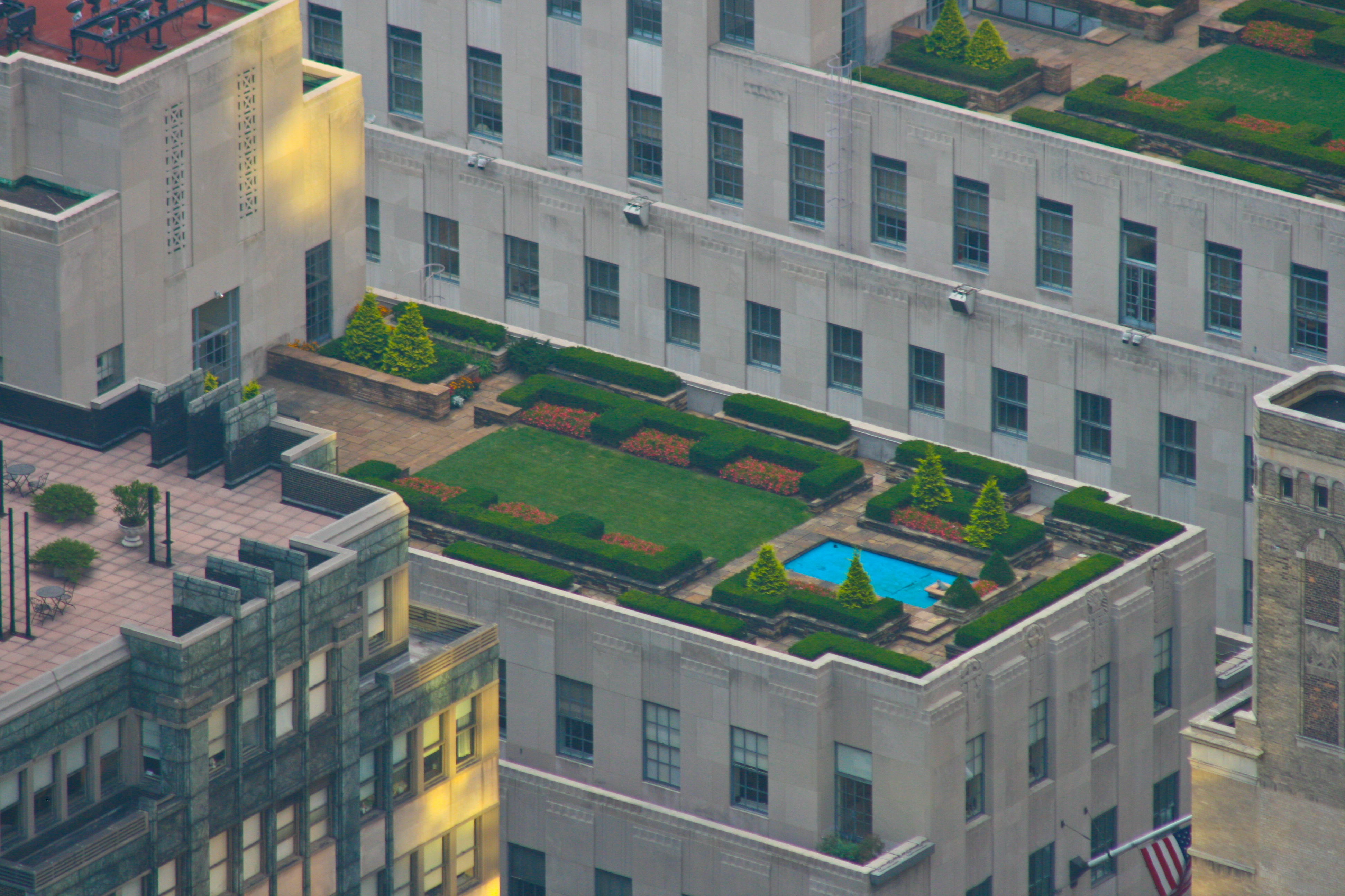 Rockefeller center building rooftops, most people very seldom get to see this rooftop.